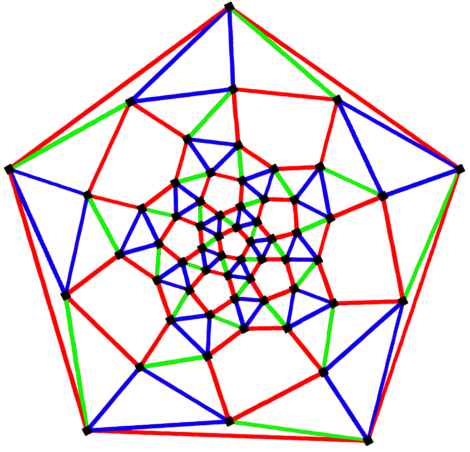 Schlegel diagram